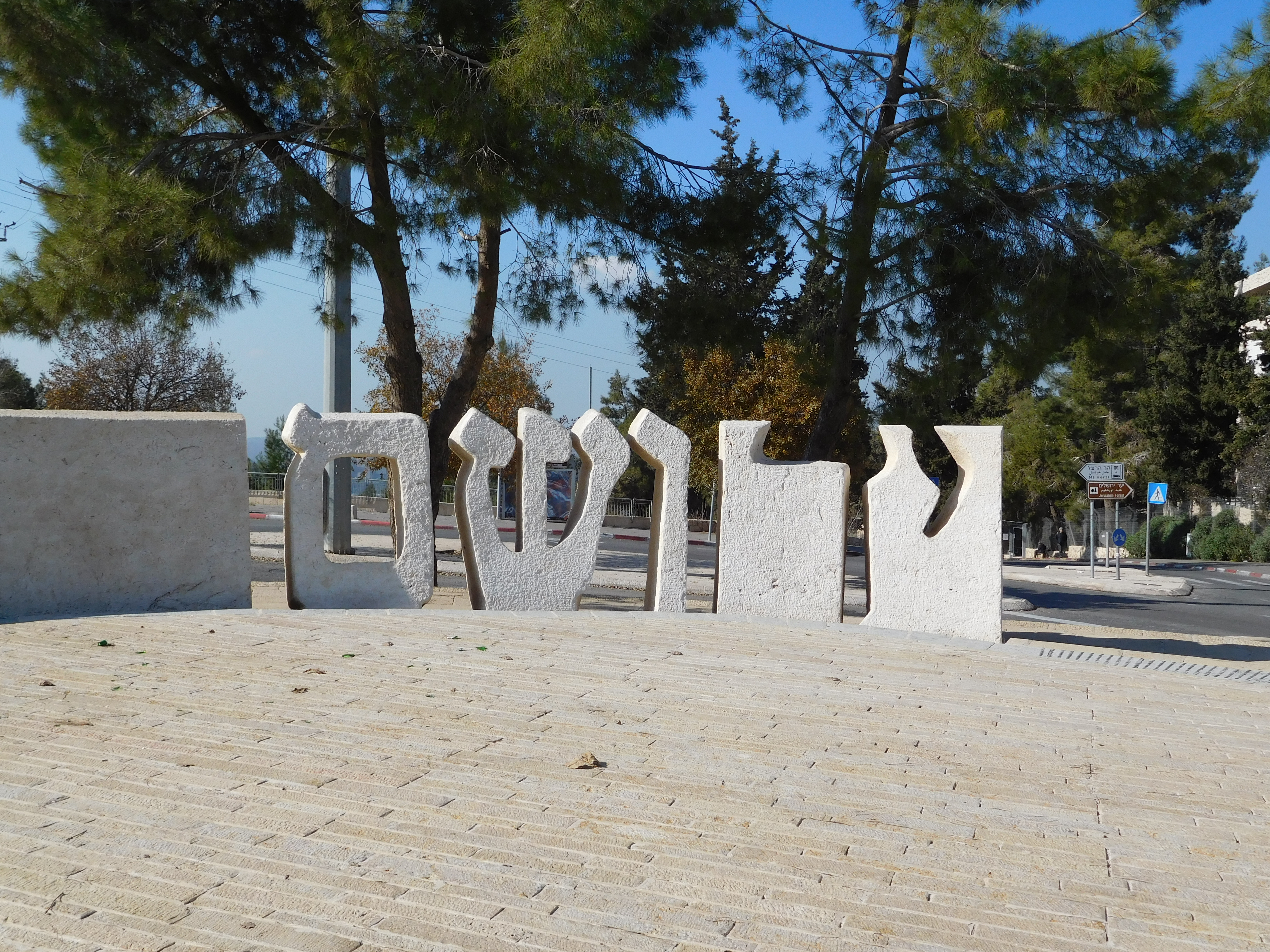 Yad Vashem square